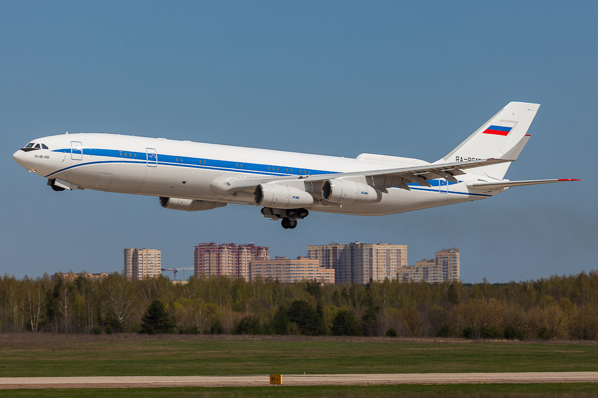 Ilyushin Il-96-400VPU (Ил-96-400ВПУ) of Border Service of the Federal Security Service